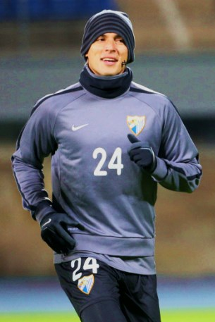 Roque Santa Cruz 2012